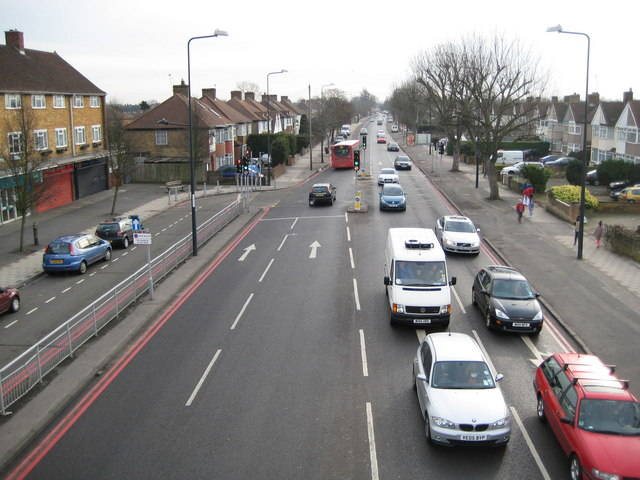 Feltham: A312 Uxbridge Road Between the wars semi-detached houses line this busy road, viewed from the Browells Lane / Boundaries Road footbridge. The double red lines at either side of the road, and indeed on the slip road too, indicate that this a Red Route Urban Clearway. The bus is on Route 285 from Heathrow Airport to Kingston-upon-Thames.